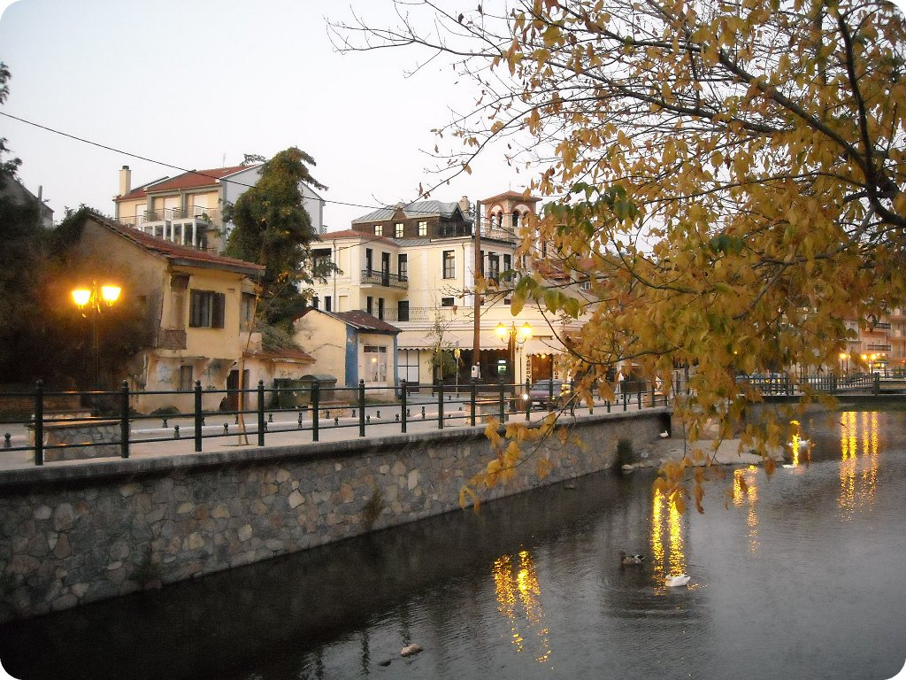 Sakulevas river in Florina, Macedonia, Greece.